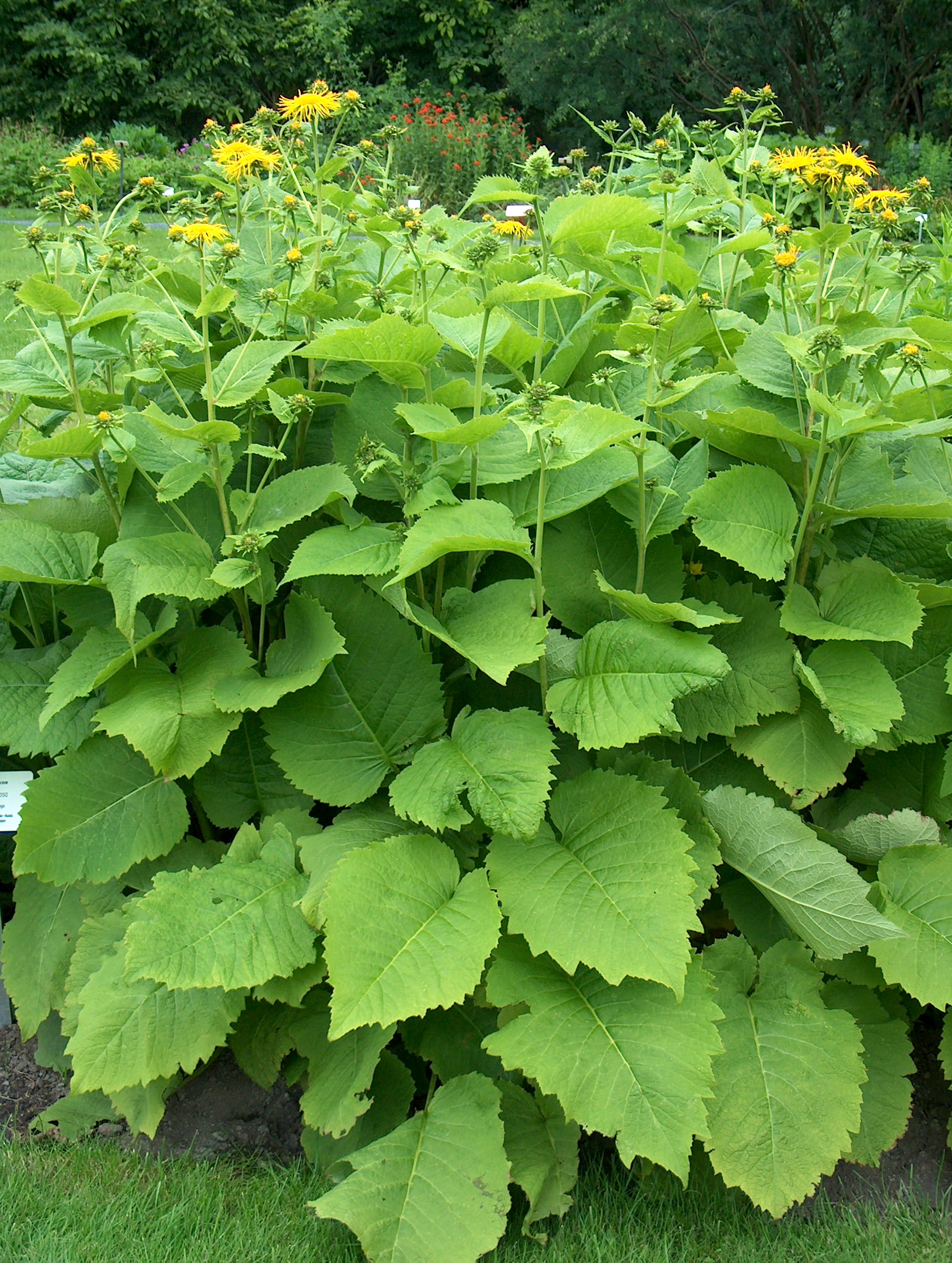 Telekia, Heartleaf Oxeye (Telekia speciosa) in The University of Helsinki Botanical Garden in Kaisaniemi